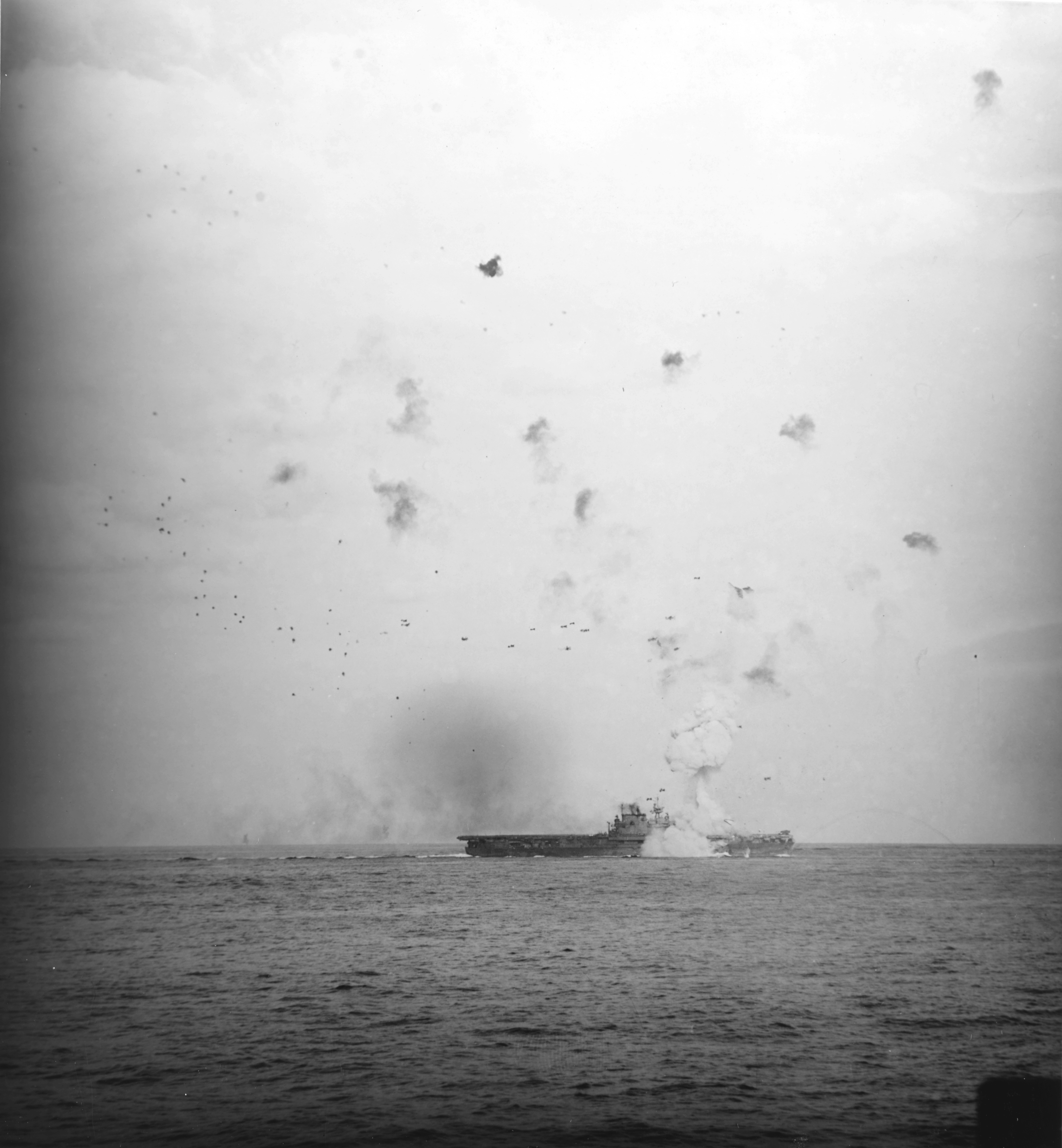 The U.S. Navy aircraft carrier USS Enterprise (CV-6) being hit by a Japanese bomb-laden kamikaze on 21 May 1945. The ship's forward elevator was blown approximately 400 feet into the air from the force of the explosion six decks below.